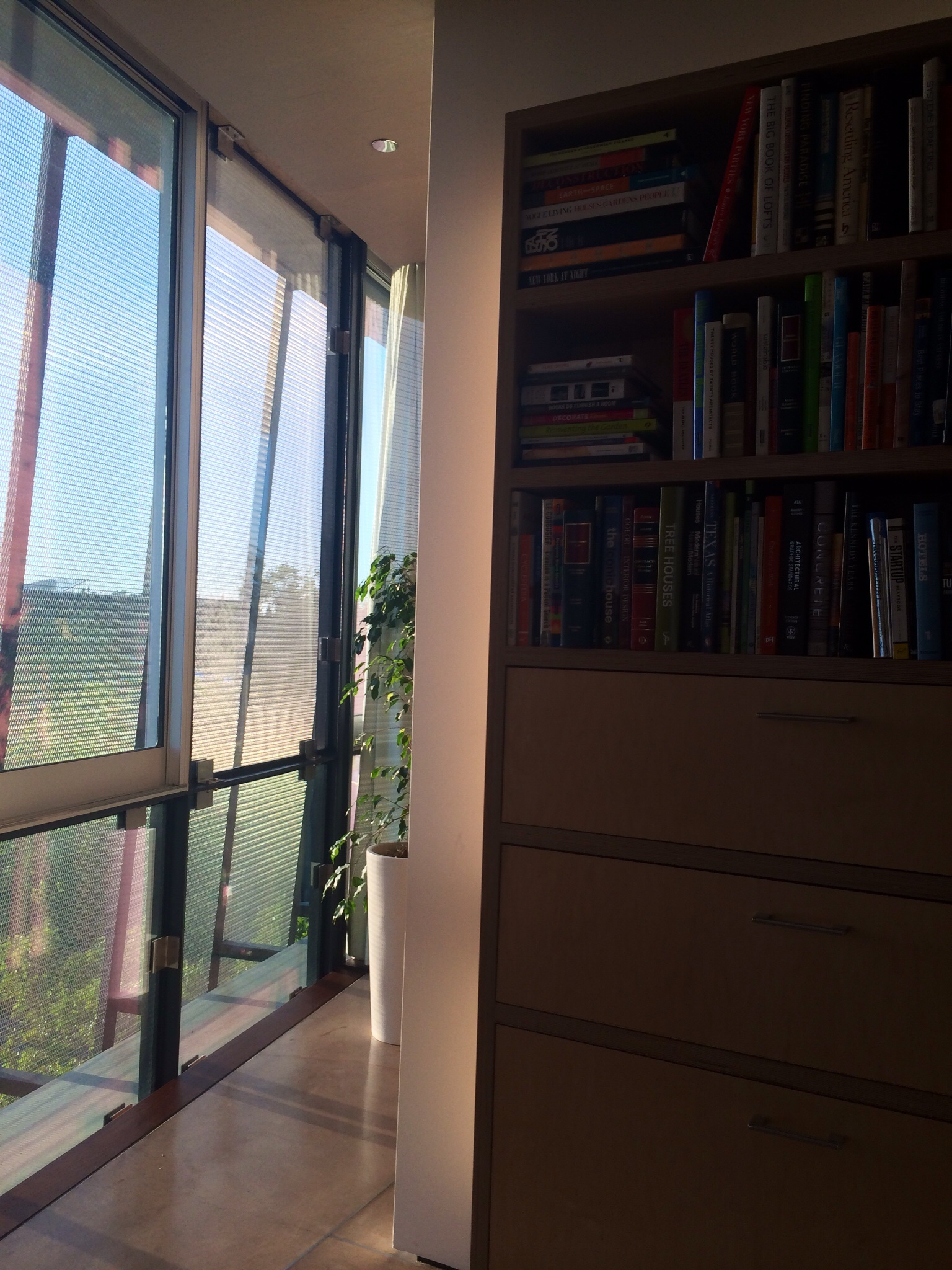 102 University Avenue — Palo Alto, CA. Joseph Bellomo, Architect